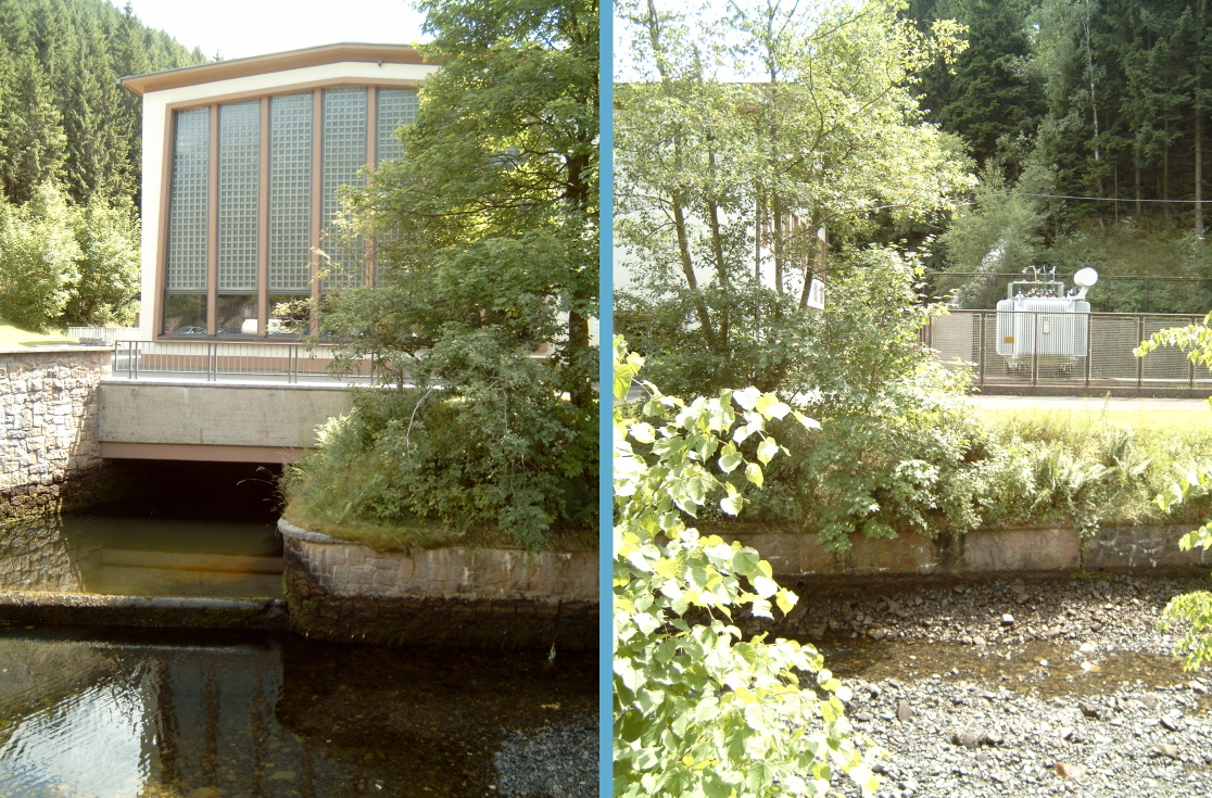 hydroelectric power plant "Romkerhalle", feeded with water from the reservoir "Okertalsperre"